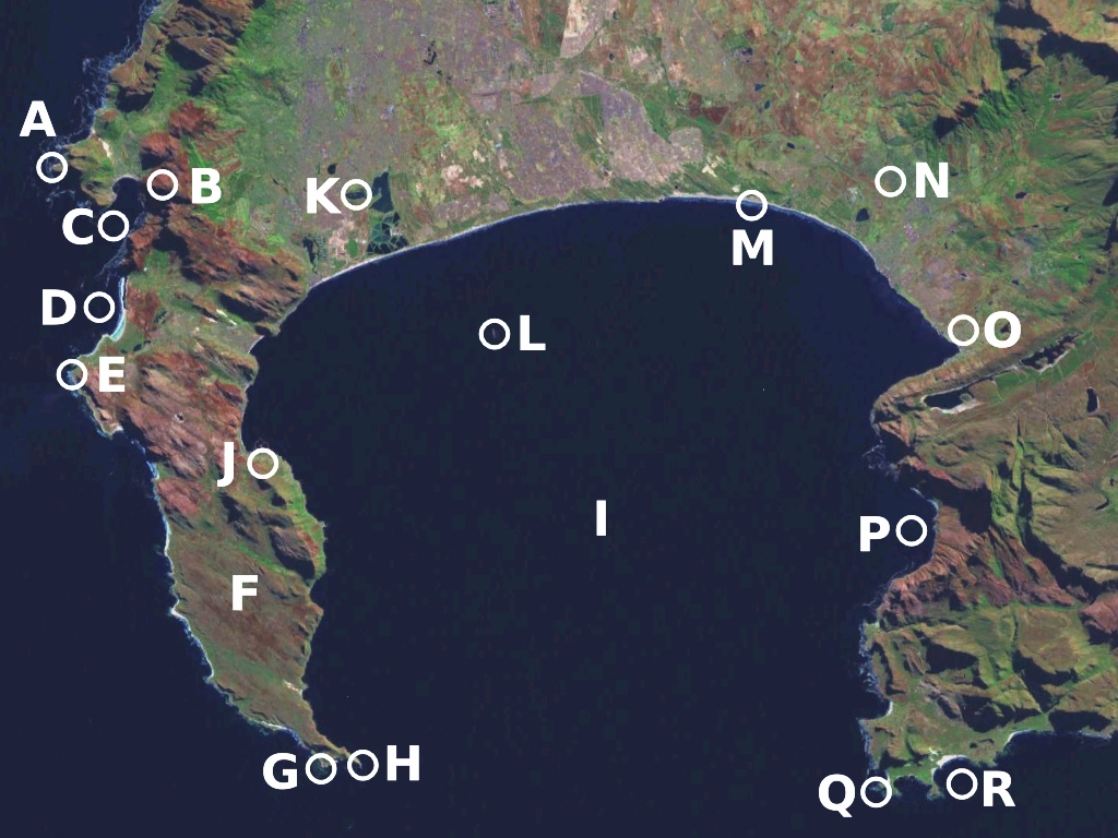 False Bay, Western Cape is the biggest true bay in South Africa, with a surface of 1,000 km2. Legend in English, with alternate name in Portuguese where applicable: A: Duikerpunt B: Constantiaberg C: Hout Bay D: Chapman Bay / Baía Chapman E: Slangkoppunt F: Cape Peninsula / Península do Cabo G: Cape of Good Hope / Cabo da Boa Esperança H: Cape Point / Ponta do Cabo I: False Bay / Baía Falsa J: Simon's Town K: Rondevlei Nature Reserve / Reserva da Natureza de Rondevlei L: Seal Island / Ilha Seal M: The Strand / Strand N: Somerset West O: Gordon's Bay P: Spark's Bay / Baía de Spark Q: Cape Hangklip / Cabo Hangklip R: Hol Bay / Baía Hol Nota em português: os nomes que correspondem a localidades não estão traduzidos, apenas os que correspondem a acidentes geográficos; daí Gordon's Bay (uma localidade), mas Baía Spark (apenas uma baía).